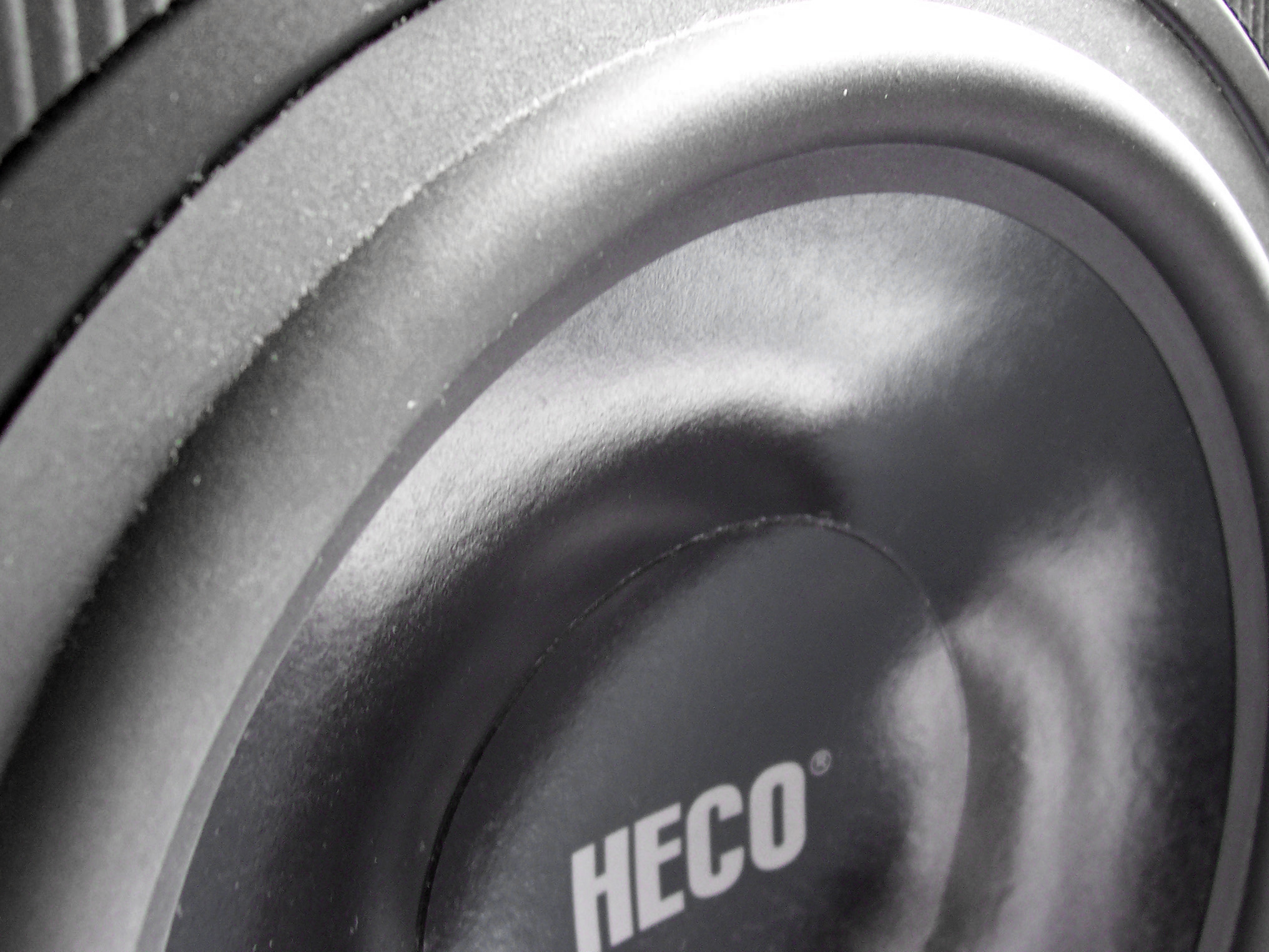 diaphragm, loudspeaker membrane of a subwoofer, Heco